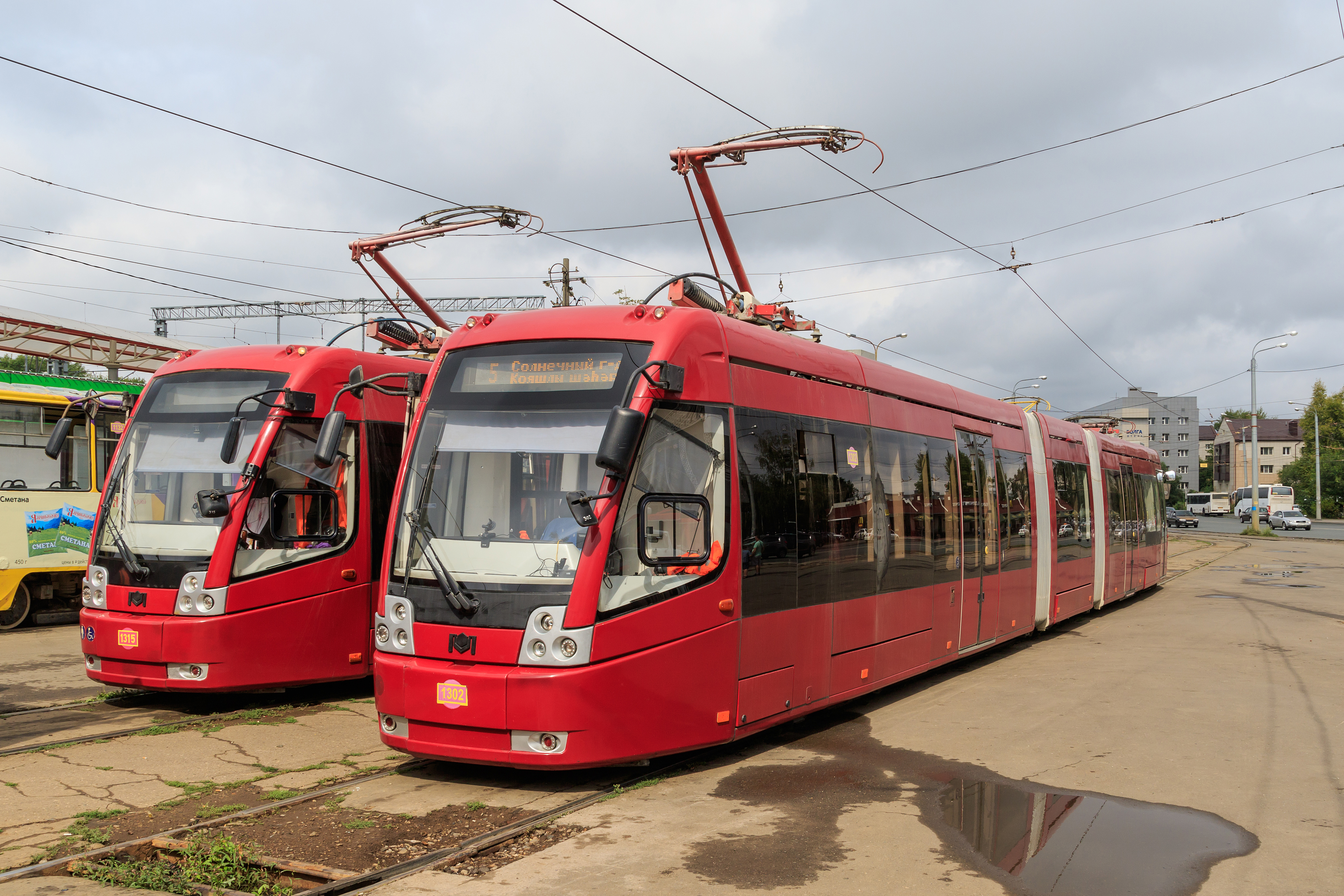 AKSM-843 tram near Central railway station in Kazan, Russia